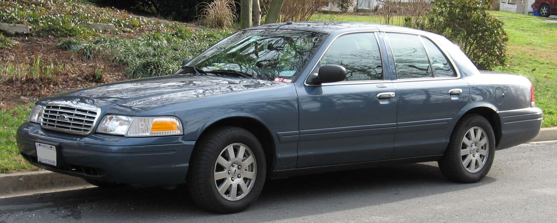 1998-2007 Ford Crown Victoria photographed in USA.